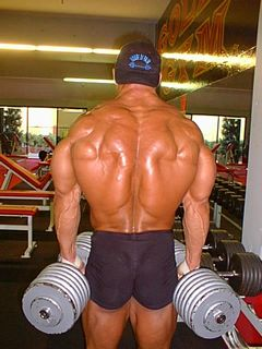 aymane benbouzid